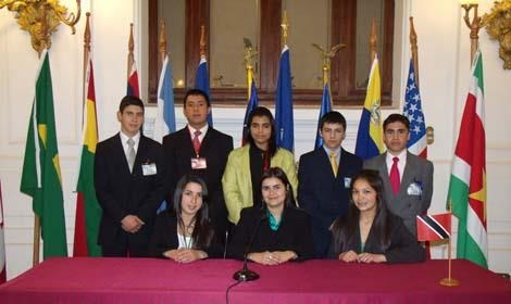 University of Chile's MOEA (Model of the Organization of American States) participants from Colegio de la Preciosa Sangre de Pichilemu, in 2011.